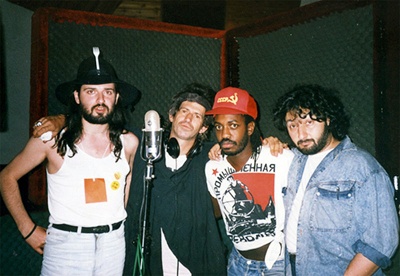 Sergey Voronov, Keith Richards, Steven Jordan, Stas Namin